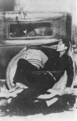 Description: Promotional poster for the Na Woon-gyu (1902 – 1937) film, Punguna (1926). The copyright of this poster once belonged to Na Woon-gyu who was the director, actor, screenwriter, and producer of the film and owner of Na Woon-gyu production. However, 50 years after his death, the poster is now public domain in South Korea and other countries to which the similar copyright would apply. Source Derived from a digital capture (photo/scan) of the image (creator of this digital version is irrelevant as the copyright in all equivalent images is still held by the same party). Copyright held by the film company or the artist. Claimed as fair use regardless.